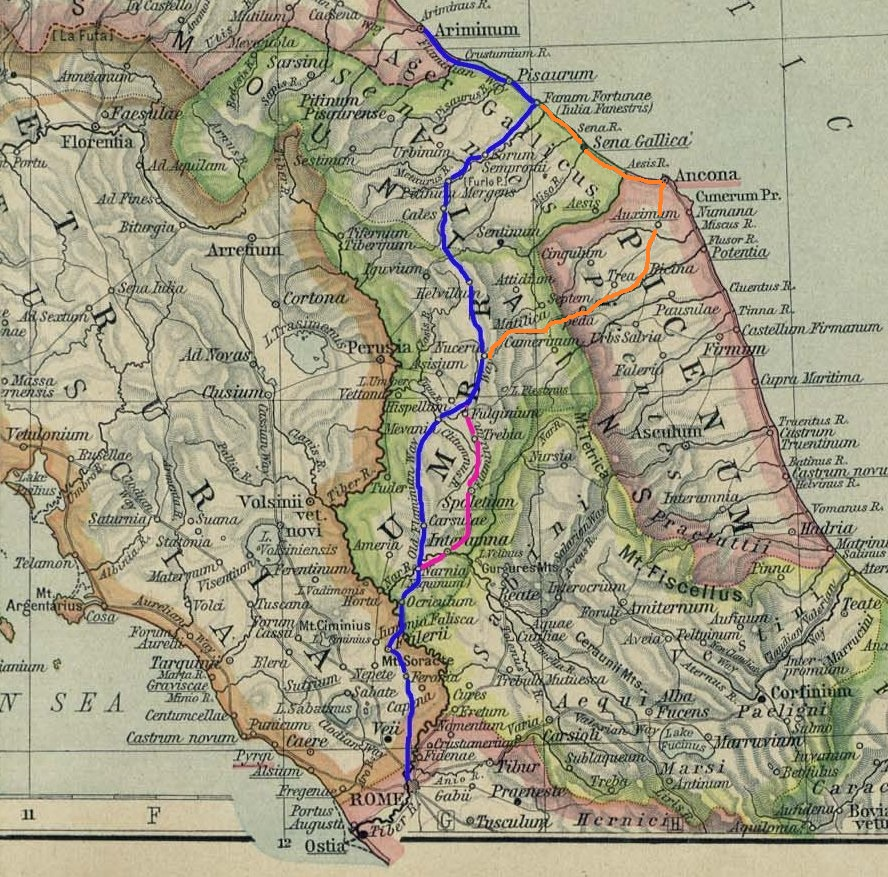 Ancient Rome Flaminia way path in blue color. Diverticulum via Flaminia nova is in violet color